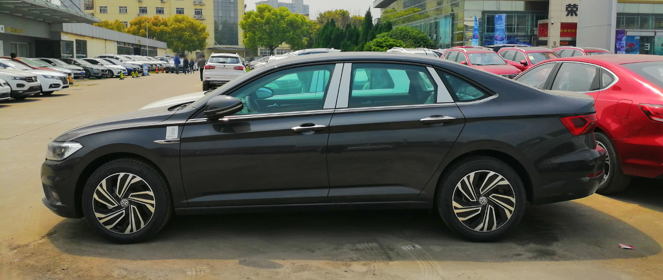 Volkswagen Sagitar III photographed in Shanghai, China.